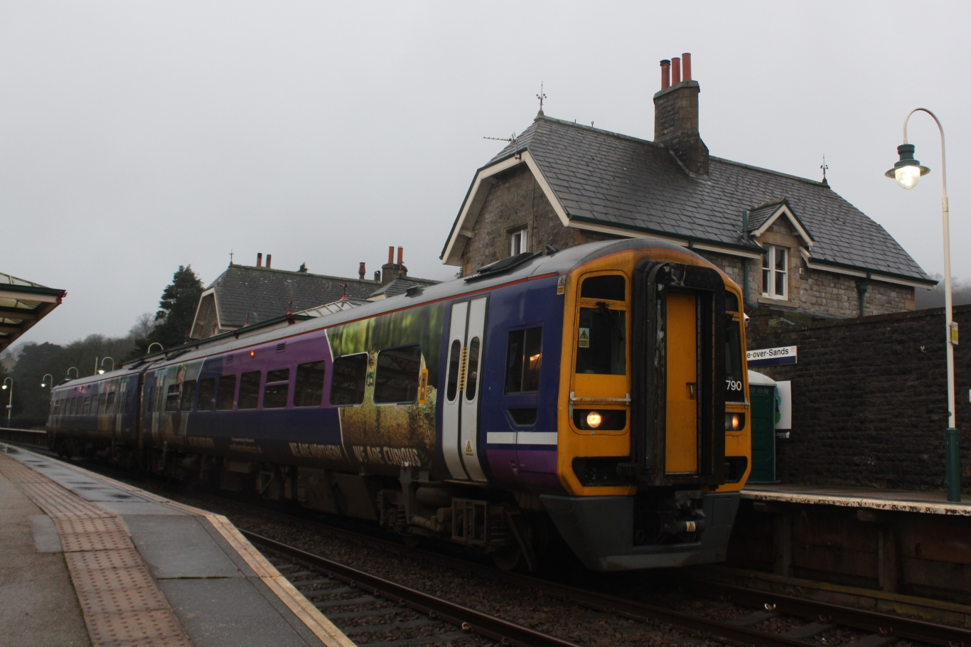 158790 calls at Grange-over-Sands with an Arriva Trains Northern service to Preston.